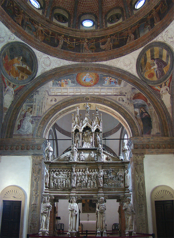 Saint Eustorgio Basilica, Milan, Lombardy, Italy. Portinari Chapel, with the tomb of Saint Peter Martyr at the center.